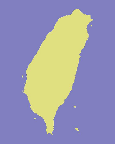 Plain version of the island of Taiwan. Saved in PNG format to enable further modification.